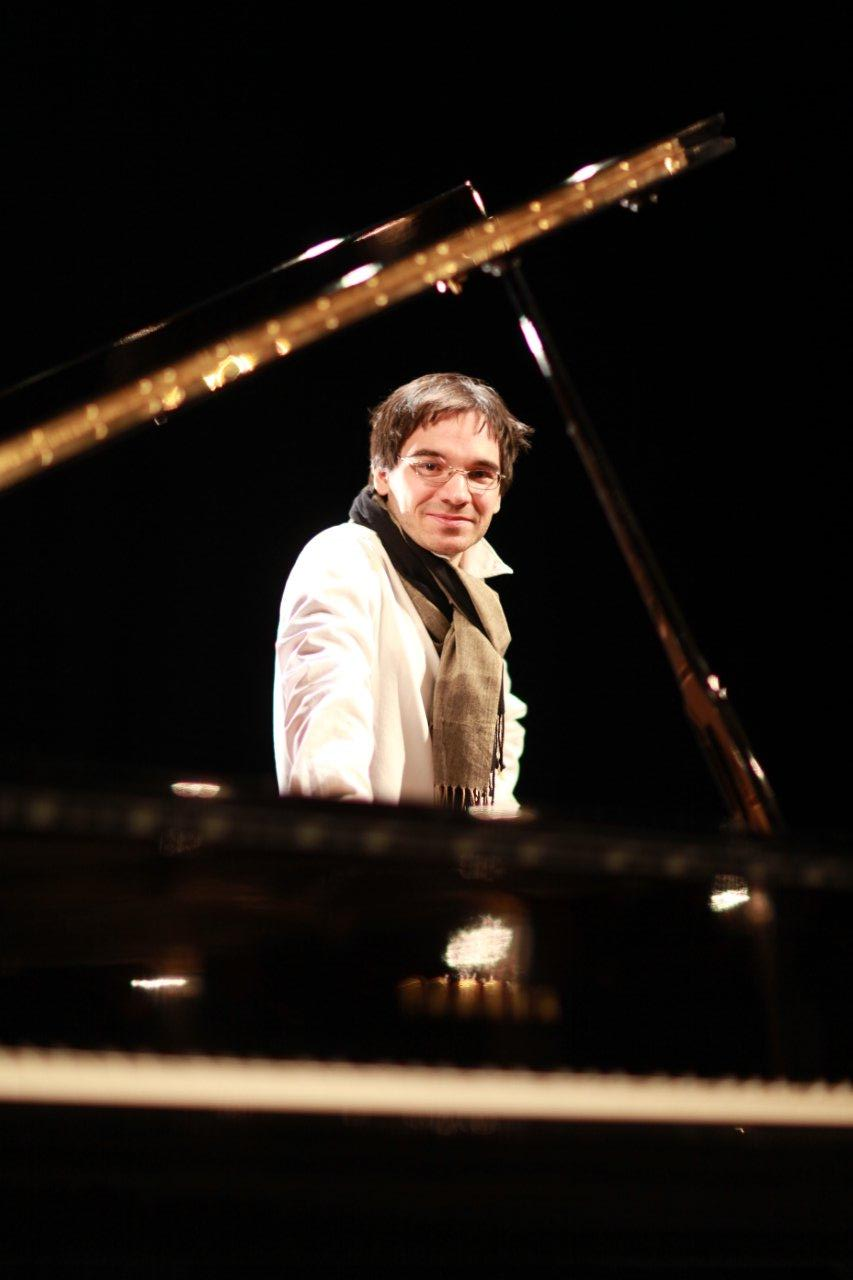 Van Bod-rehearsal in HNK Osijek